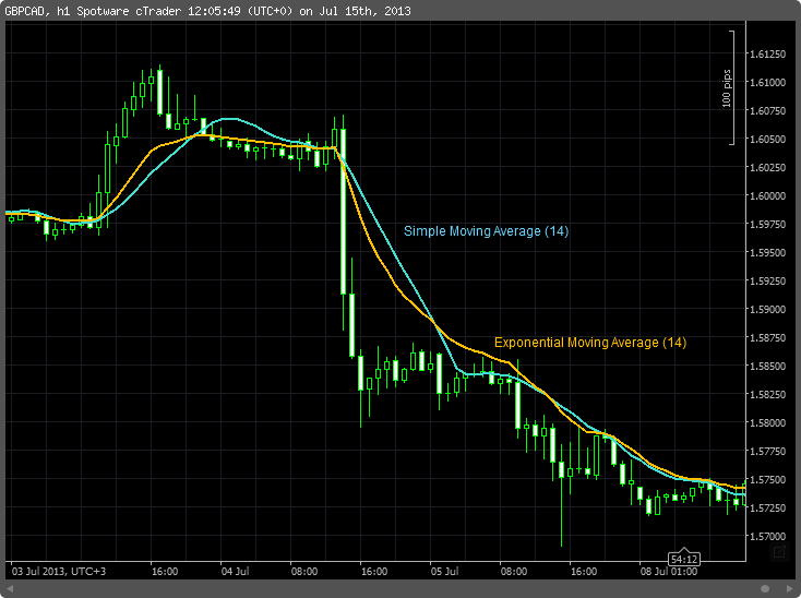 Two moving average indicators (Simple and Exponential) added to a typical stock chart.